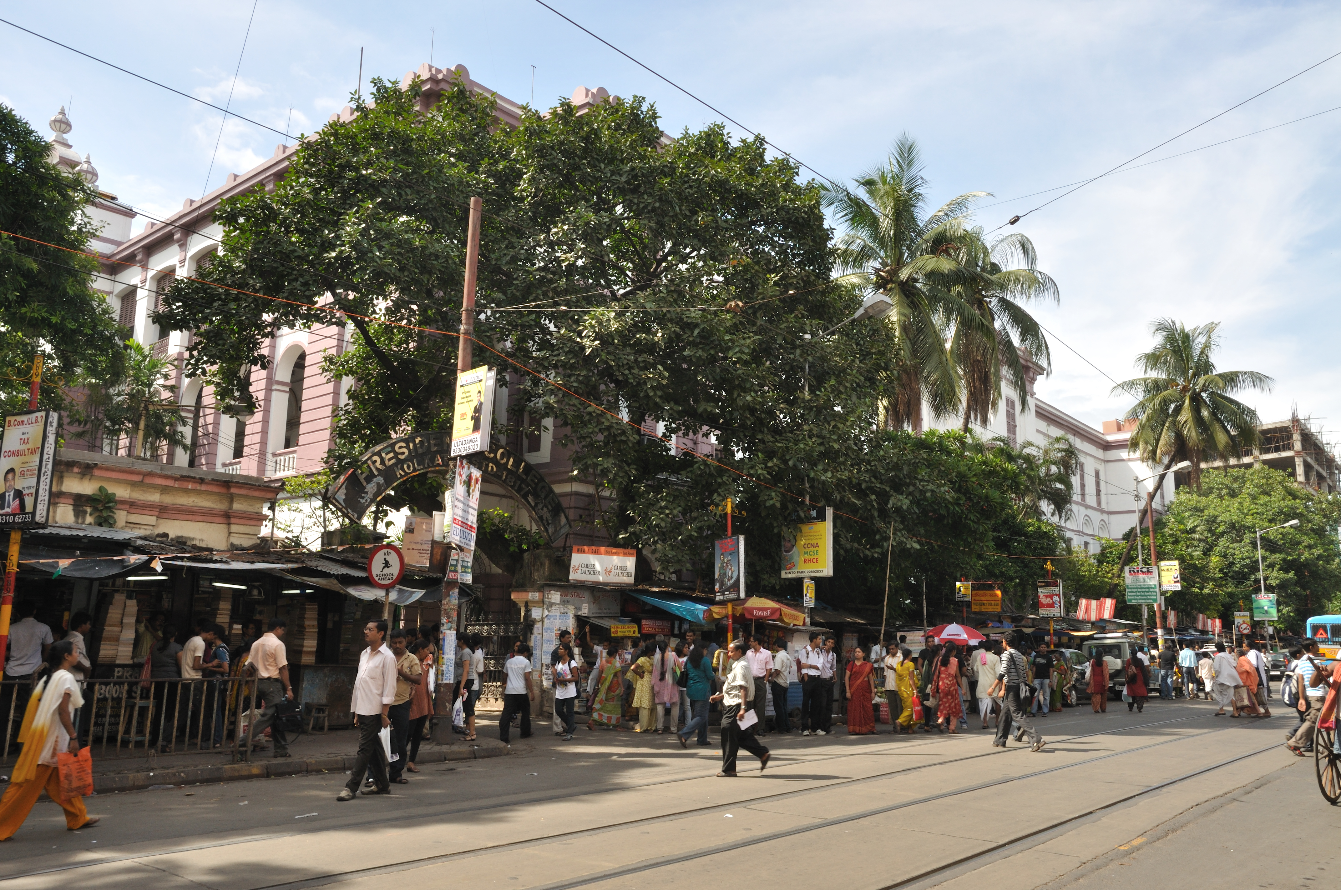 Presidency University, Kolkata (earlier Hindoo College and Presidency College) is a unitary, state aided university, located in Kolkata, West Bengal. Established in 1817, it is the oldest educational institution in India.